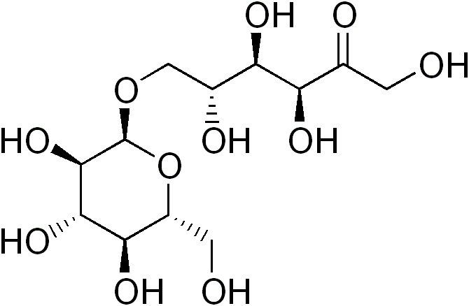 Chemical structure of isomaltulose created with ChemDraw.